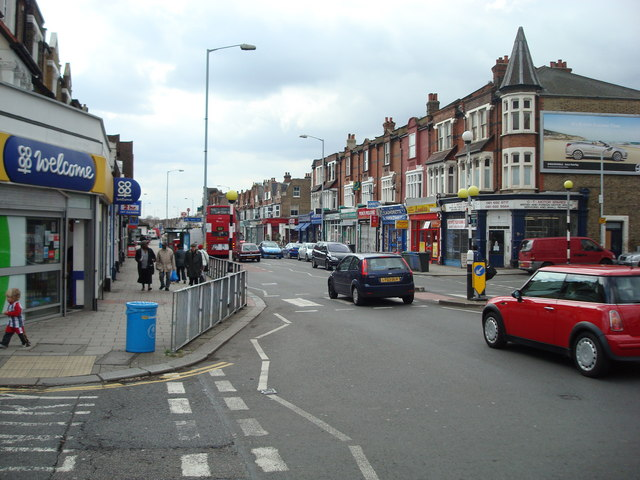 Shops, Brockley Road, London SE4